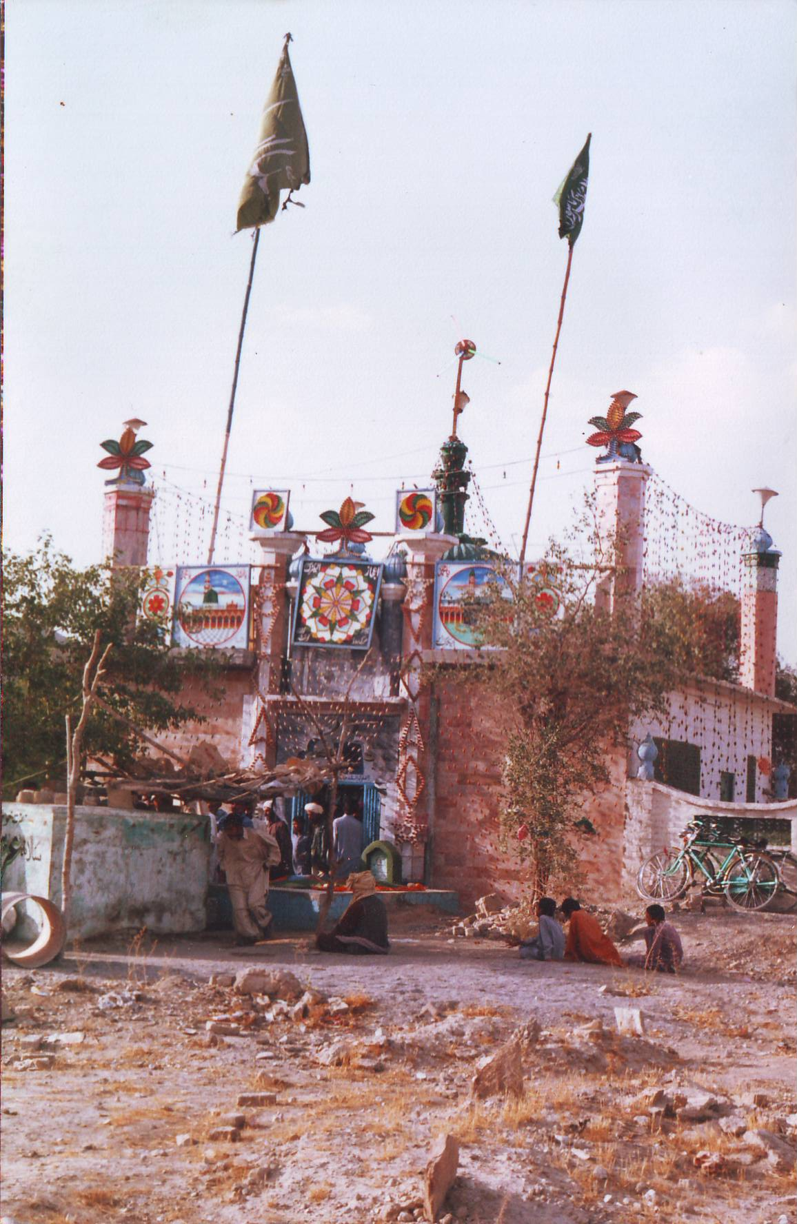 Own work